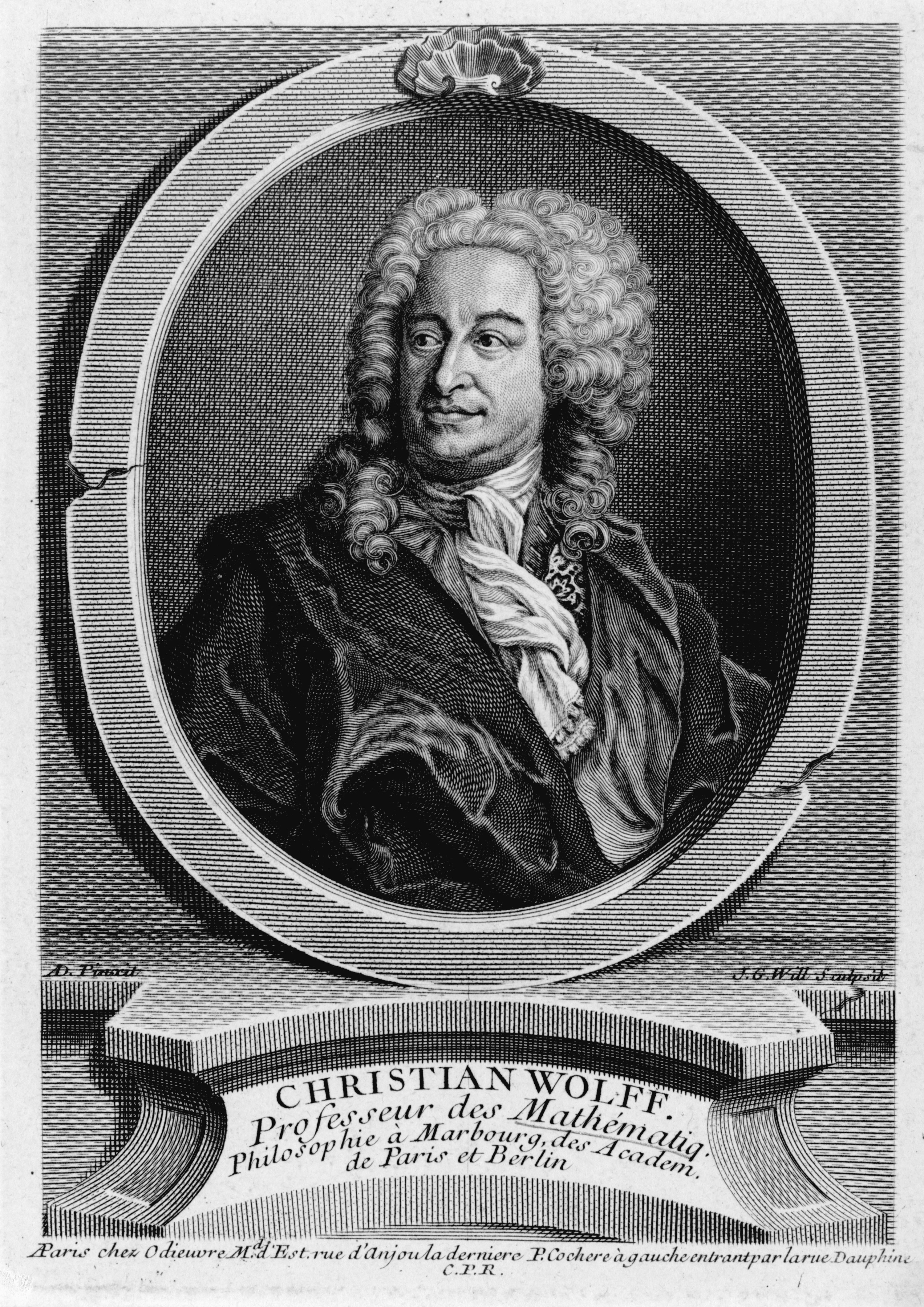 Portrait of Christian Wolff (1679-1754)